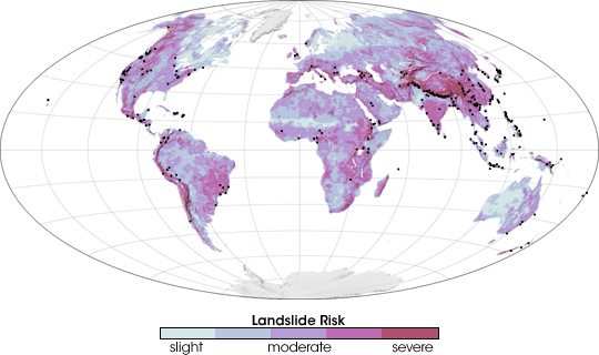 Scientists are striving to reduce the loss of life from landslides by developing a global, satellite-based early-warning system. The scientists first identified landslide-prone regions, as shown in this image. To create this landslide risk map scientists mapped all of the regions that featured some combination of coarse soil, land cover that was inadequate to stabilize the surface, and/or steep mountains. The regions that have the highest risk of landslides are salmon pink. Areas of moderate risk are lavender, and regions with a slight risk are pale blue. Areas where landslides occurred between 2003 and 2006 are marked with black dots on this map.